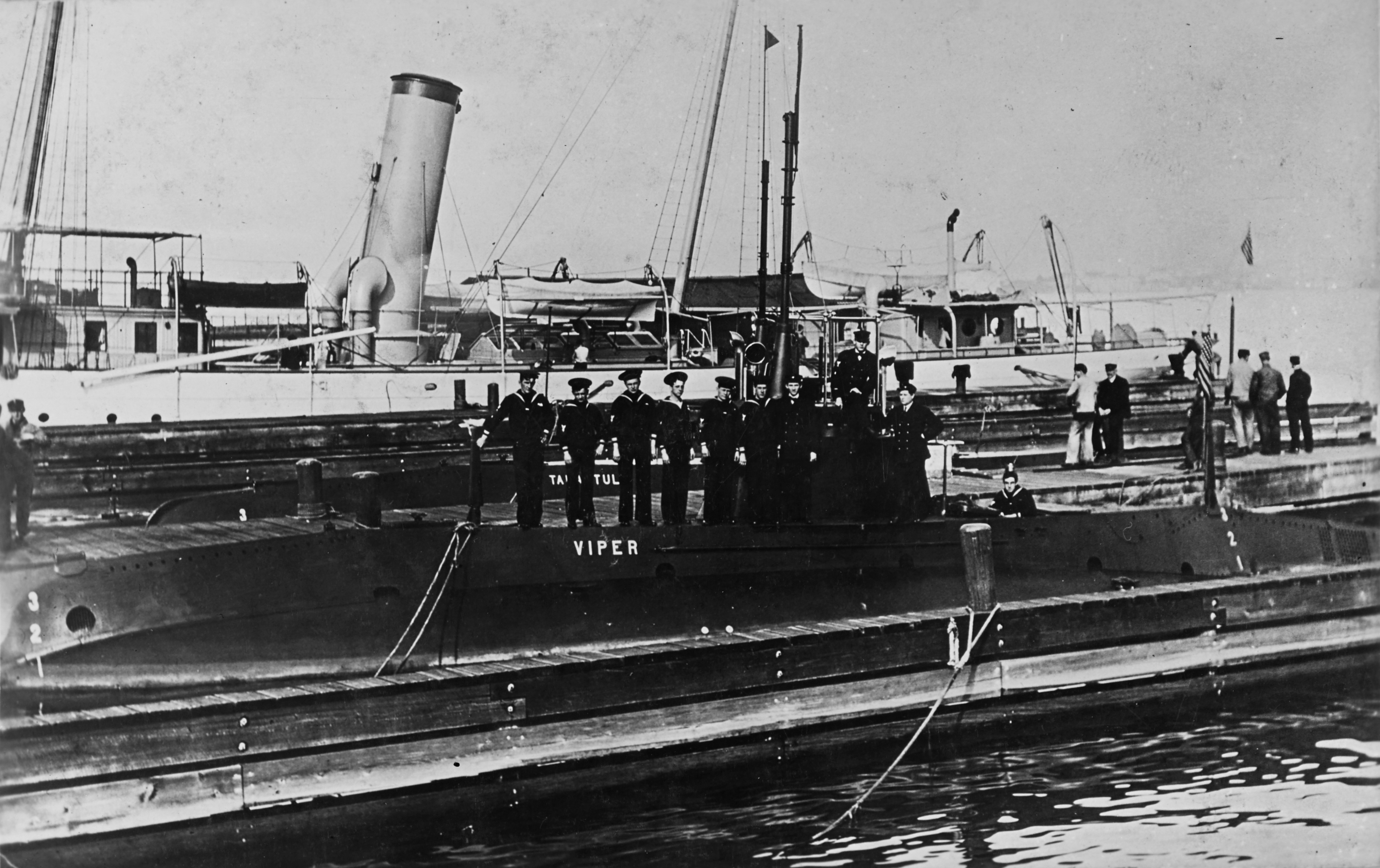 USS Viper in port, with members of her crew on deck, circa 1907-1911. USS Tarantula (Submarine # 12) is behind her. U.S. Naval History and Heritage Command Photograph.